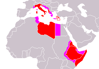 The maximum extent of the Italian Empire.